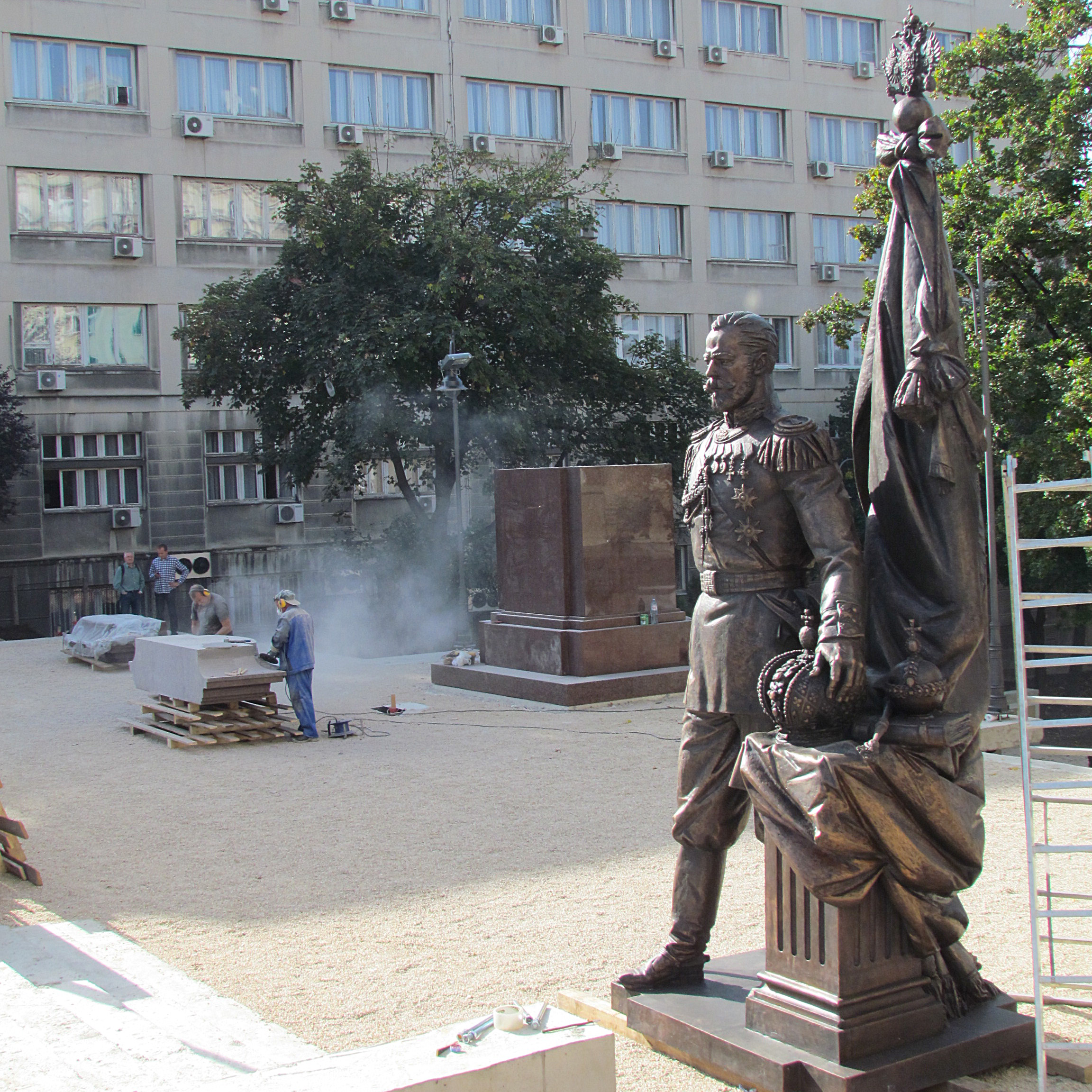 Sculpture of Nicholas II of Russia in Belgrade before erection.